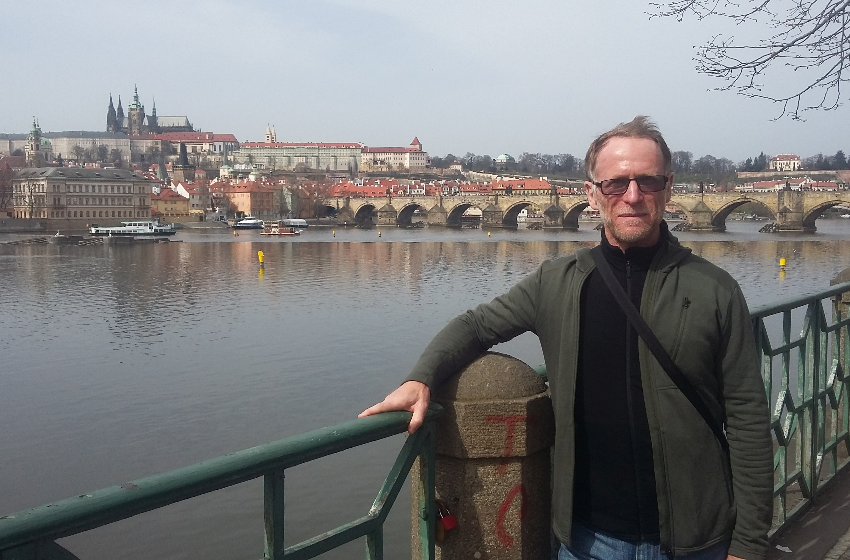 New Zealand poet David Howard on his visit in Prague 2016